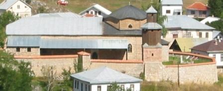 The church in Lazaropole.